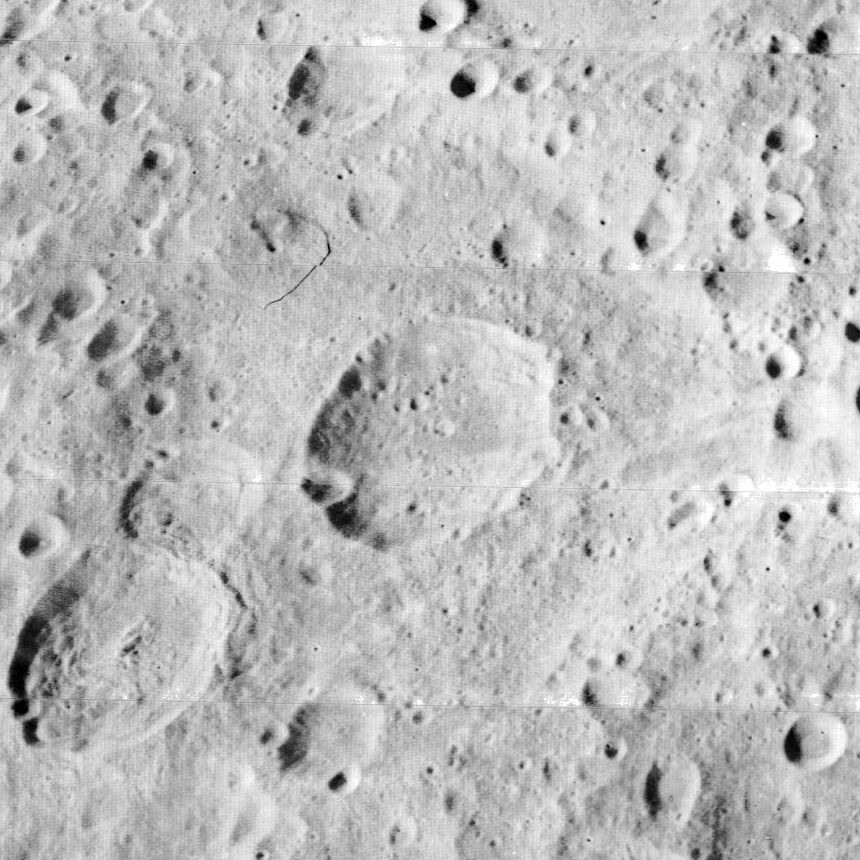 Oblique view of Mandel'shtam, on the far side of the moon. North at top.